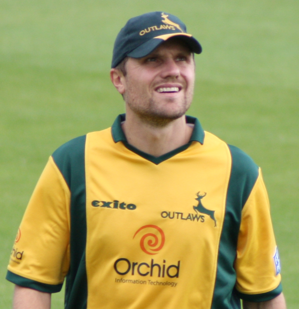 Dirk Nannes looks up at the scoreboard during the 2010 Friends Provident t20 semi-final between Nottinghamshire Outlaws and Somerset at the Rose Bowl, Southampton.